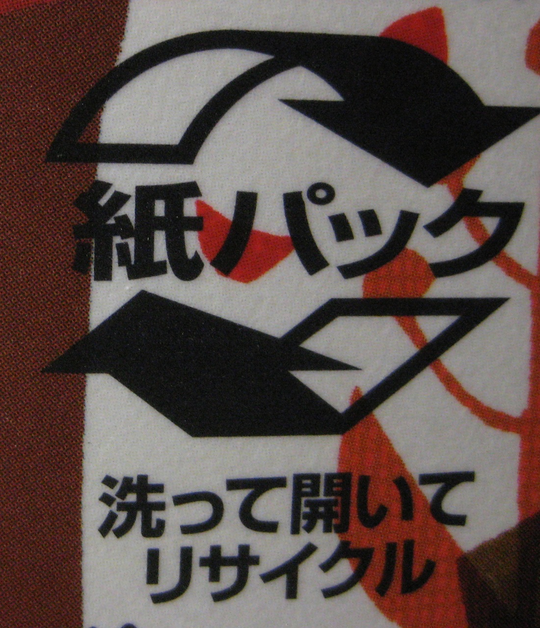 Recycling Symbol of a paper container in Japan.